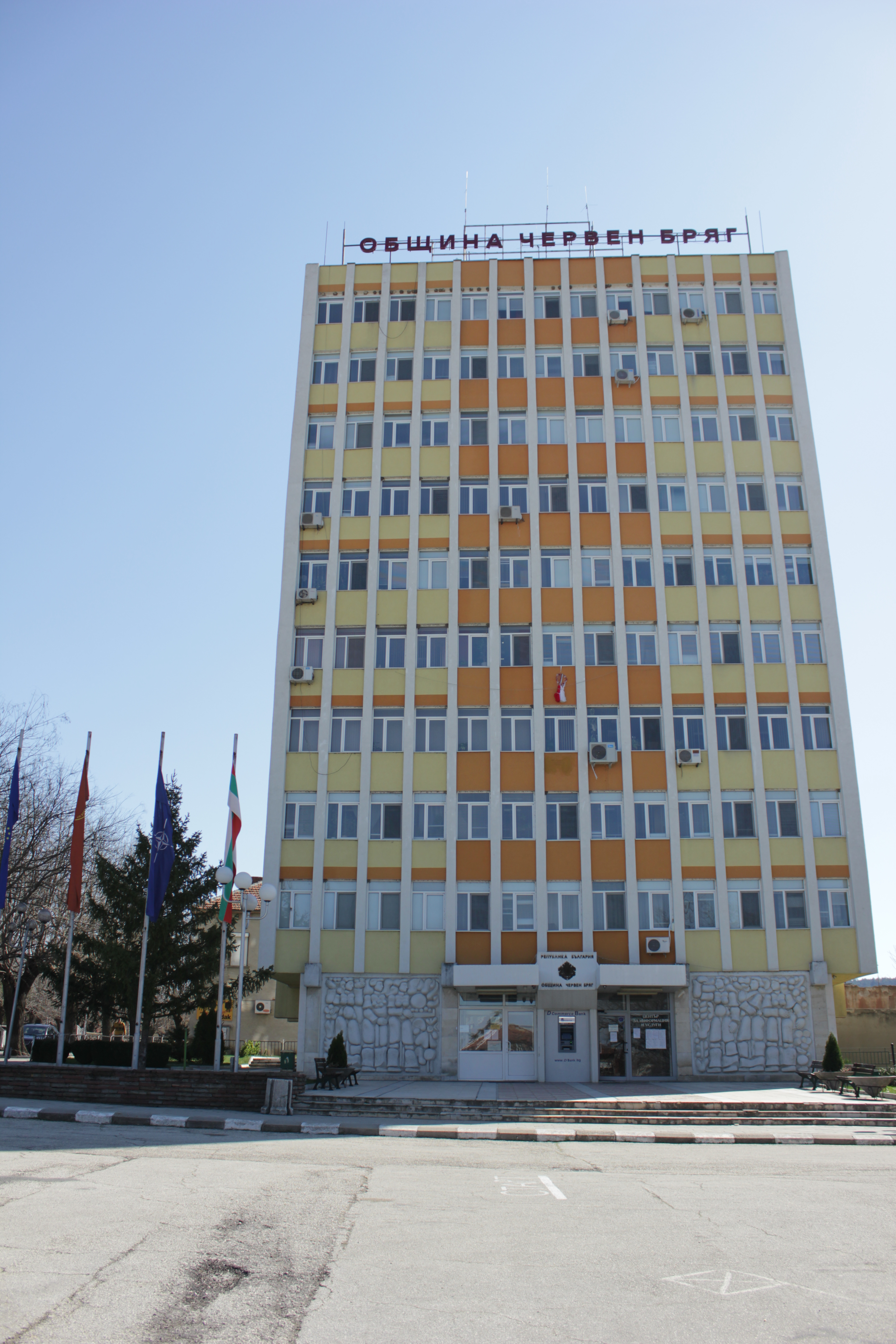 Cherven Bryag Municipality office building